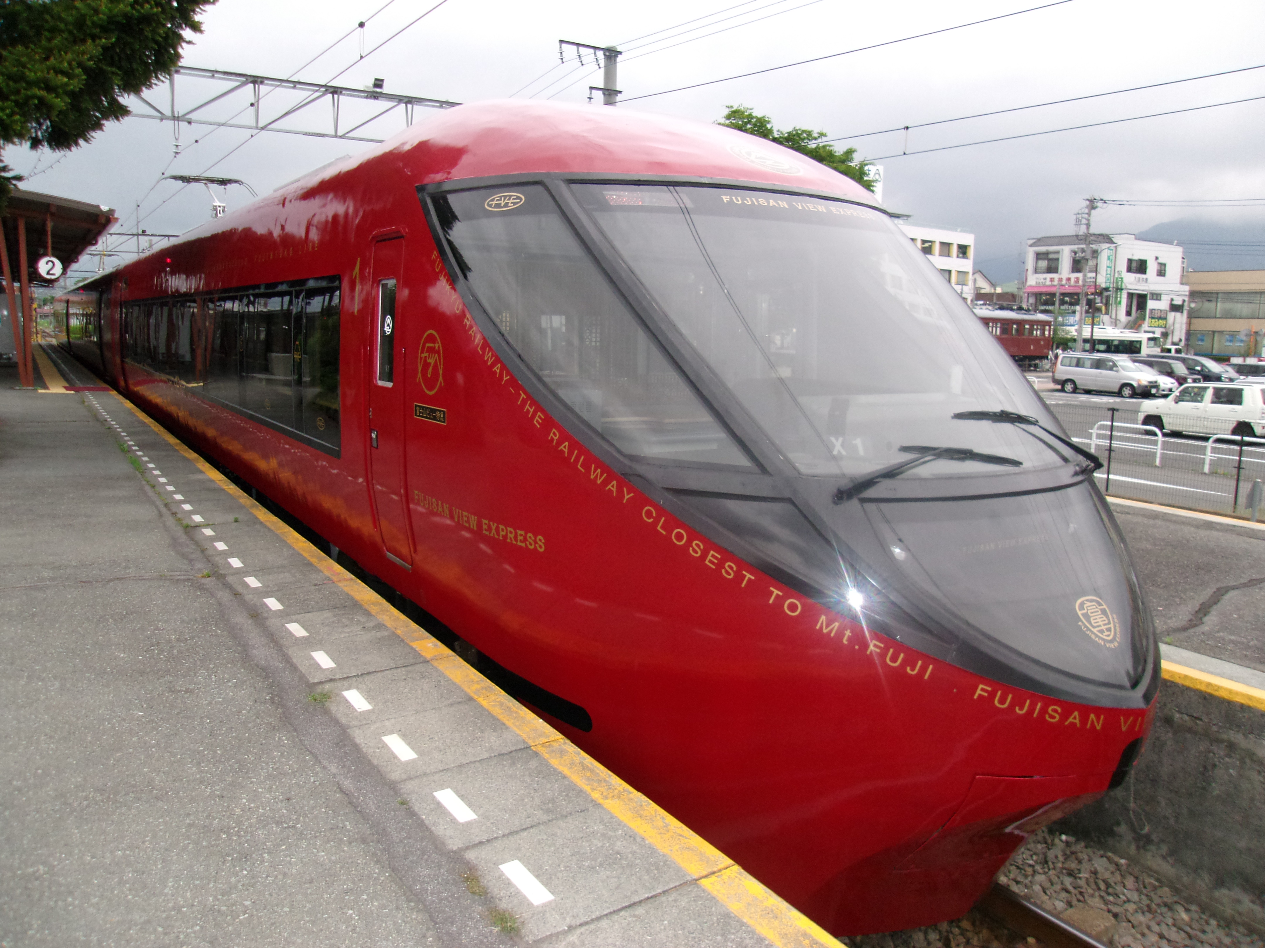 The Fujikyu 8500 series EMU at Kawaguchiko Station on a Fujisan View Express service